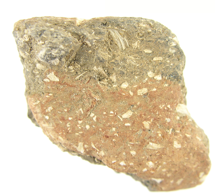 A Medieval pottery rim sherd from a shelly-ware jar (1050-1250). The rim sherd has an everted rim and dark grey fabric with red oxidised margins and frequent shell inclusions. Dave Applegate suggests it is North Kent Shell Tempered ware (Monaghan 1987). Dimensions: weight: 14.39g.